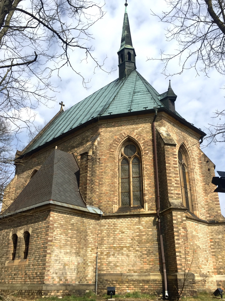 desc